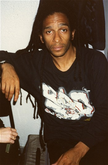 Don Letts of Big Audio Dynamite (Backstage at The Galleria, San Francisco, California, USA)